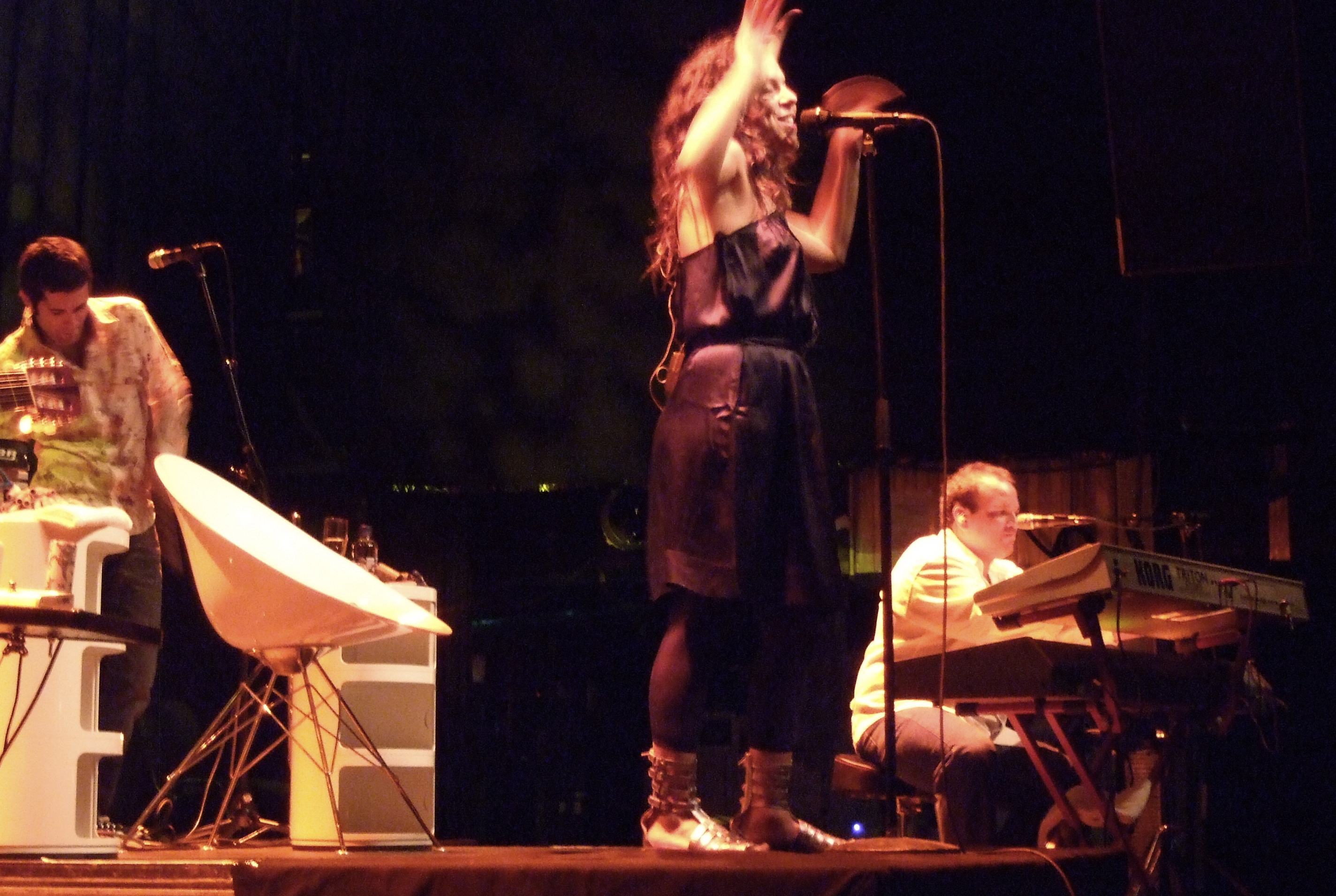 Bebel Gilberto during a concert in Oslo, August 2007